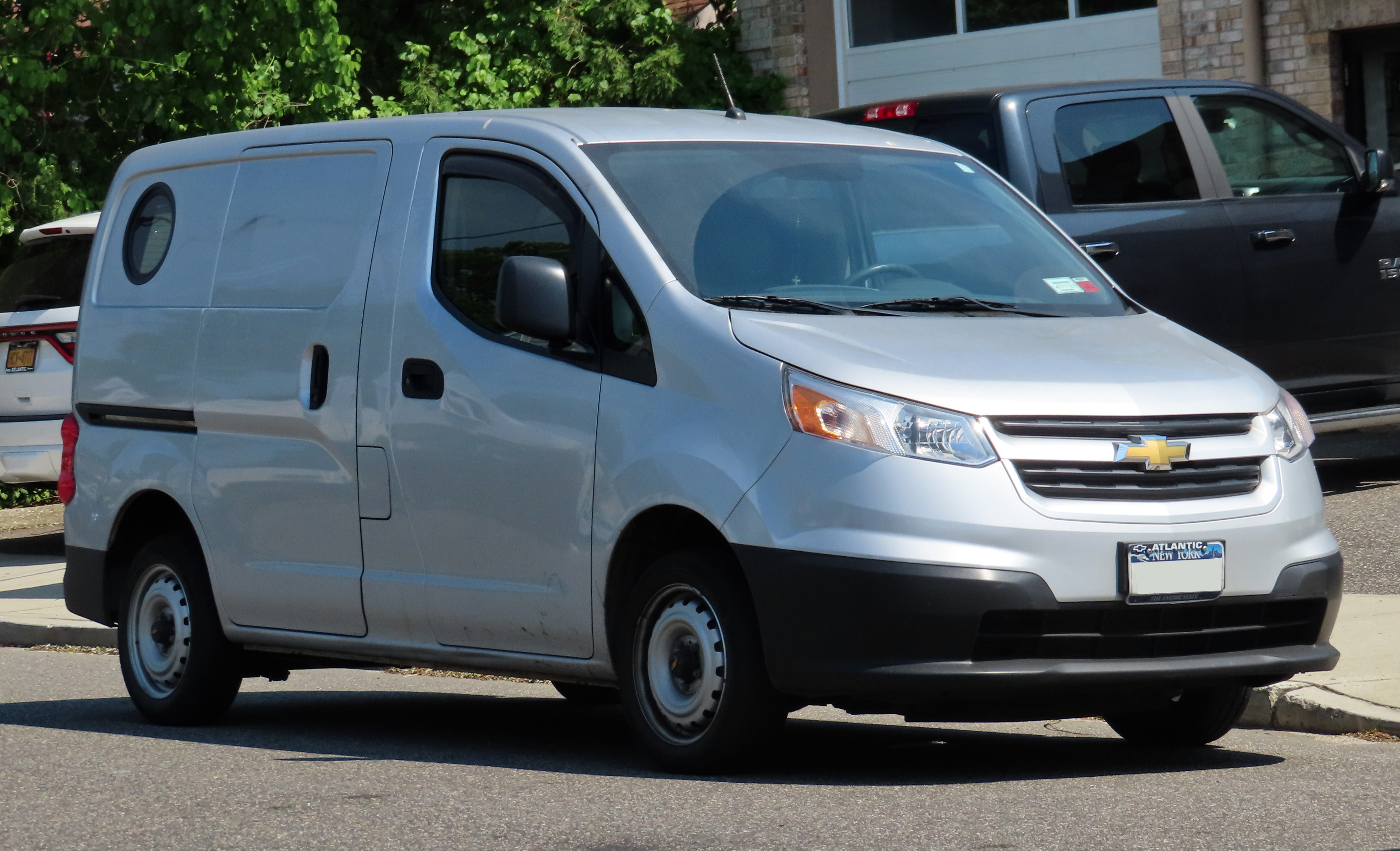 A 2015 Chevrolet City Express LS photographed in Lindenhurst, New York, USA